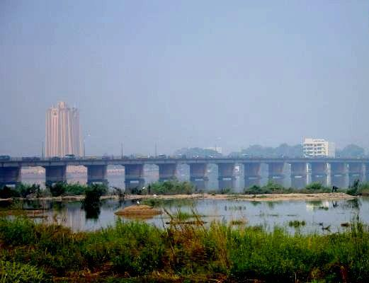 Old bridge in Bamako, Mali. Looking North over theNiger River, BCEAO tower in background and the Pont Des Martrys in the foreground.